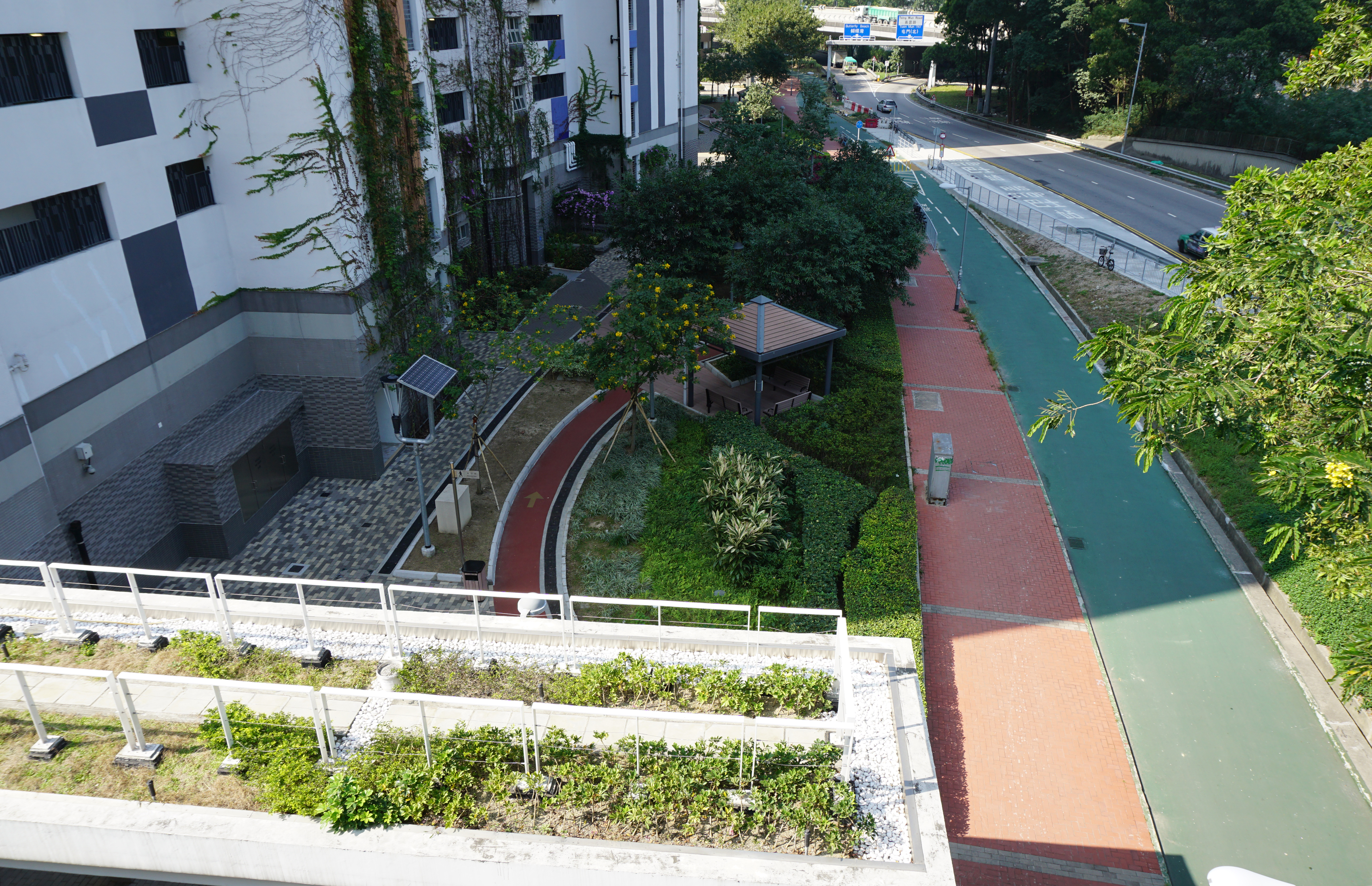 Lung Yat Estate in Tuen Mun, Hong Kong.